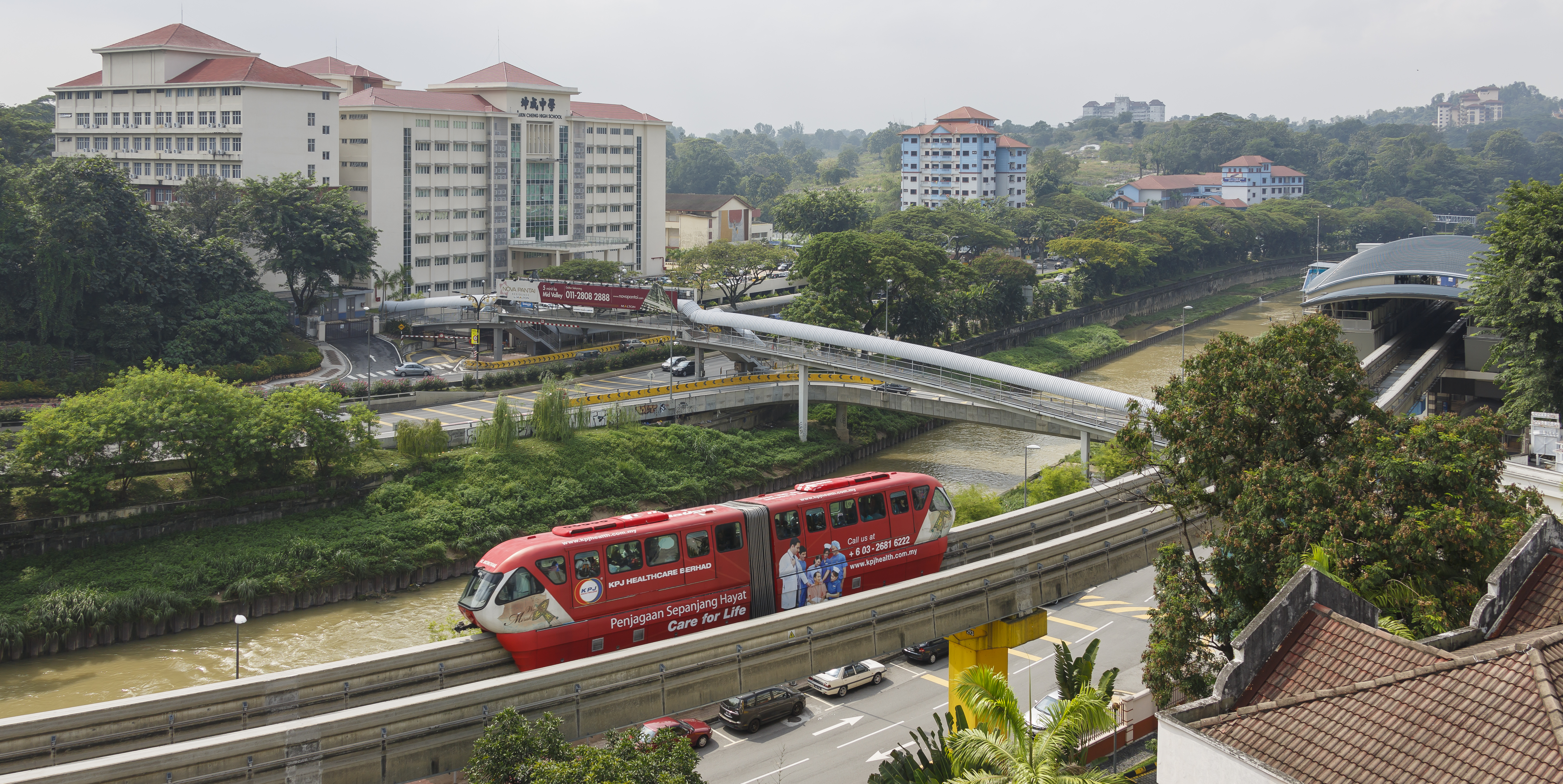 Kuala Lumpur, Malaysia: Monorail train approaching MR2 Tun Sambanthan Monorail Station